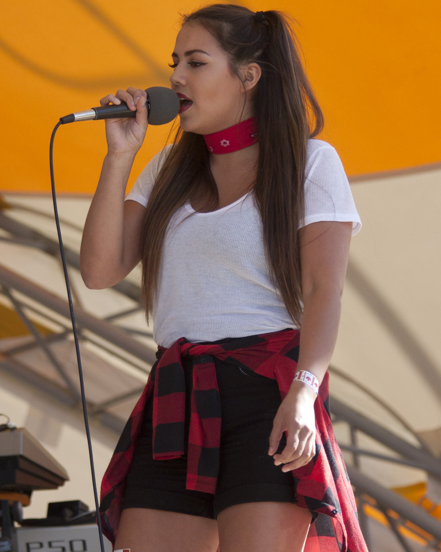 Natasha Fisher singing at the Canada celebration on July 1, 2016 on the main stage at Marina Park in Thunder Bay, Ontario, Canada. She performed with her sister Hannah as the Fisher Sisters.